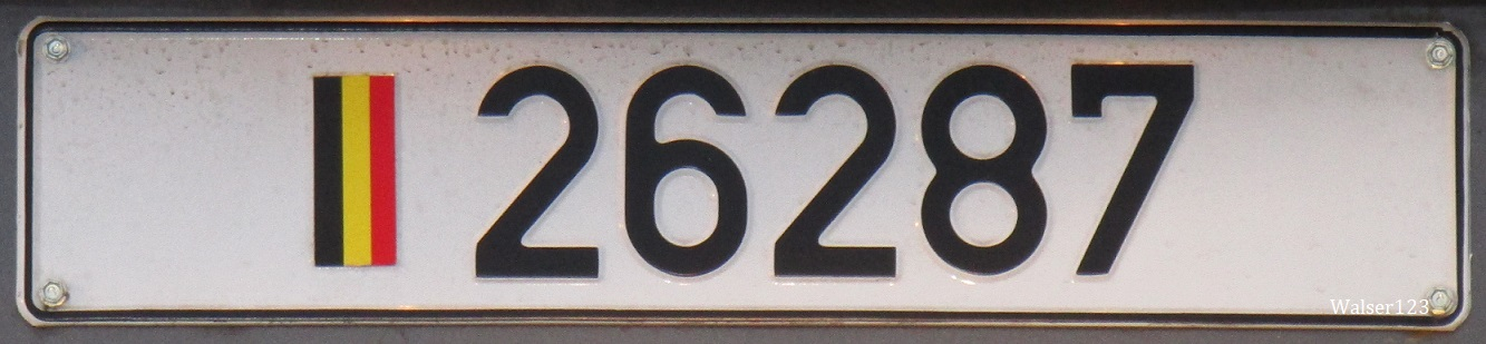 Belgian military plate, 24-11-2019, in Lindau, Germany